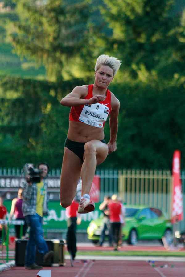 Svetlana Bolshakova competing in the triple jump in Velenje, Slovenia, June 2012